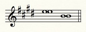 Tuning of a Slavonian "Tambura samica" (in E)